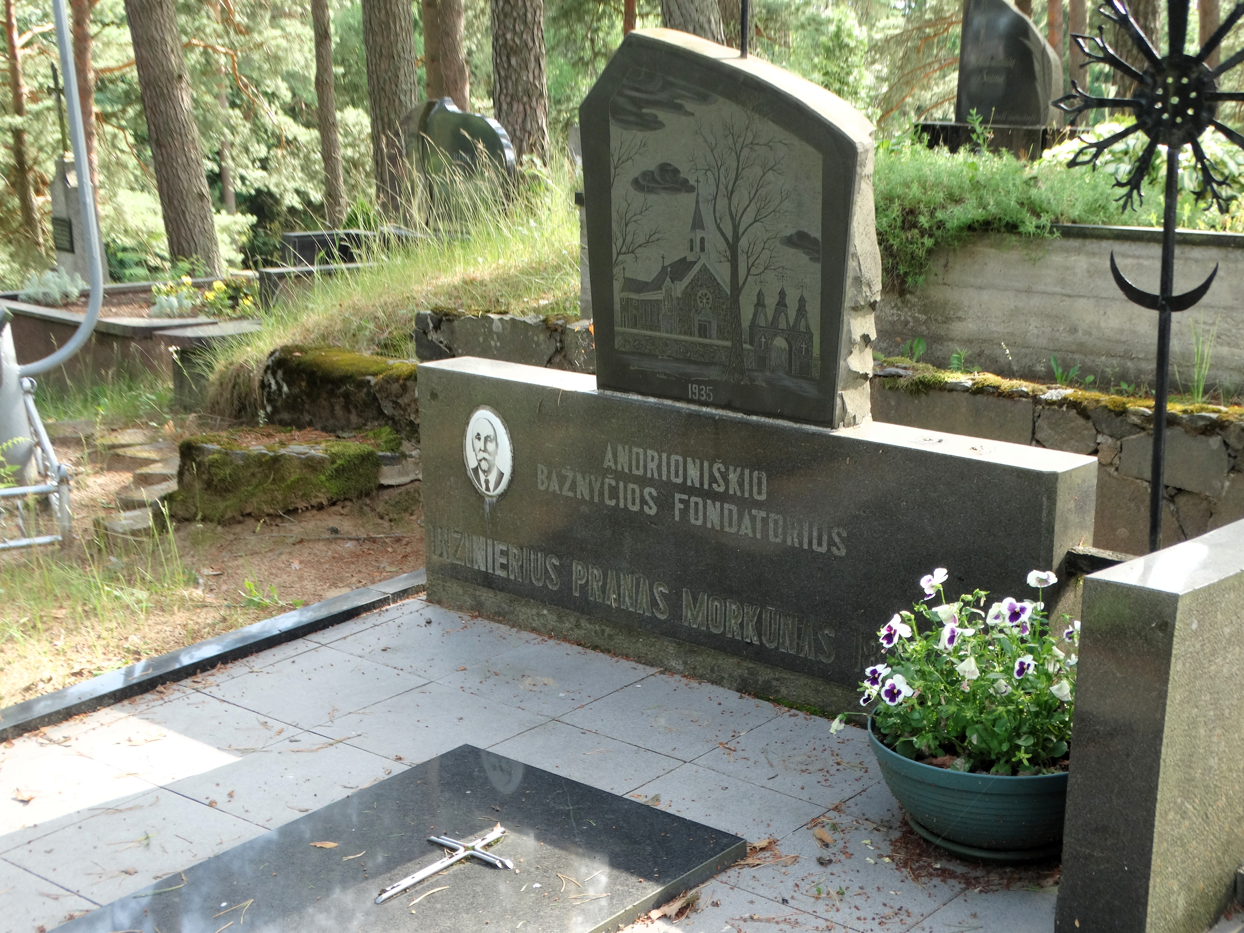 Grave of Pranas Morkūnas, Andrioniškis, Lithuania